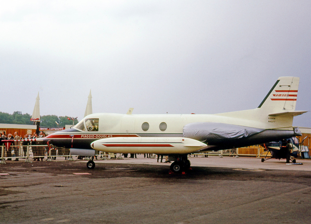 Piaggio PD.808 MM577 of the Italian Air Force at the 1966 Hanover Air Show